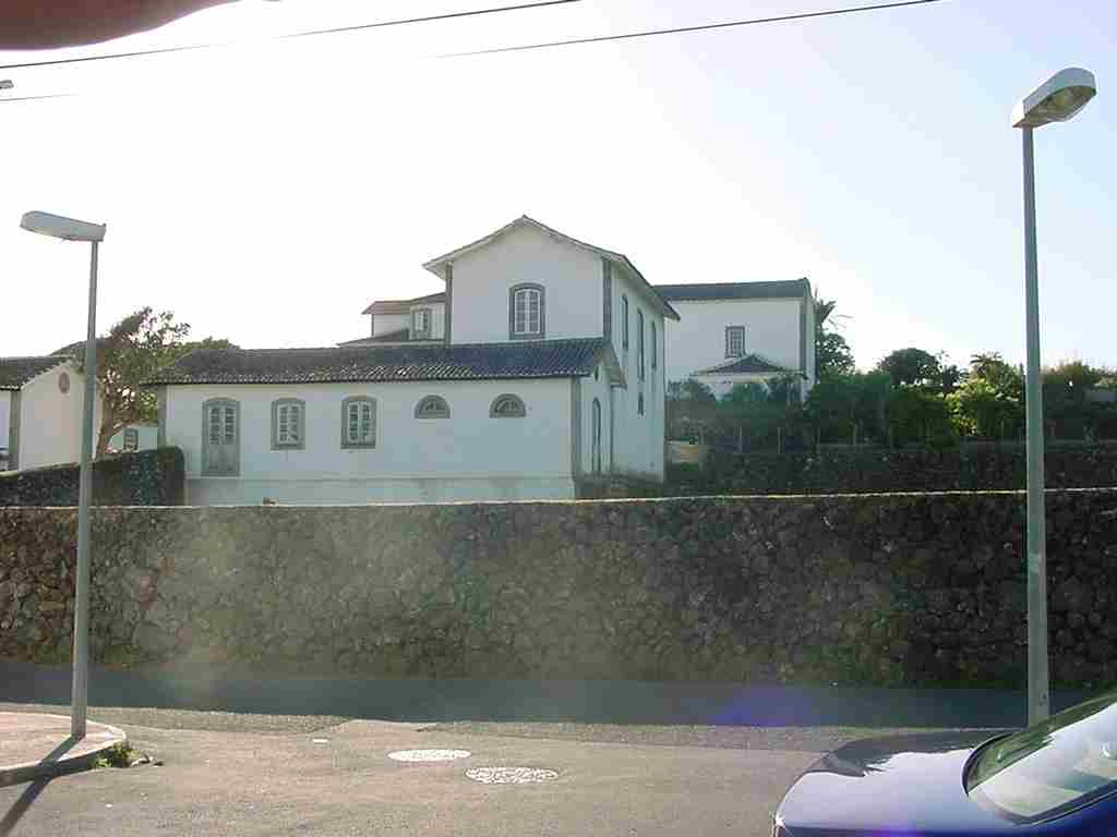 Solar Merens de Távora, aspectos, São Mateus da Calheta, Angra do Heroísmo, ilha Terceira